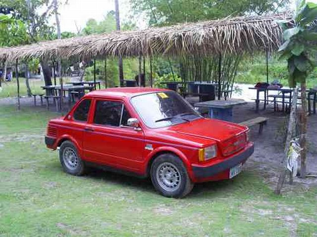 Brazilian Gurgel XEF car. It is a plastic bodied two-seater with a rear-mounted Volkswagen engine, although it tries very hard to look like a Mercedes-Benz 350SL.